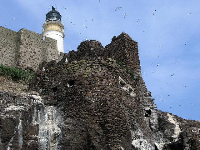 Castle and lighthouse Bass Rock's, Firth of Forth, Scotland